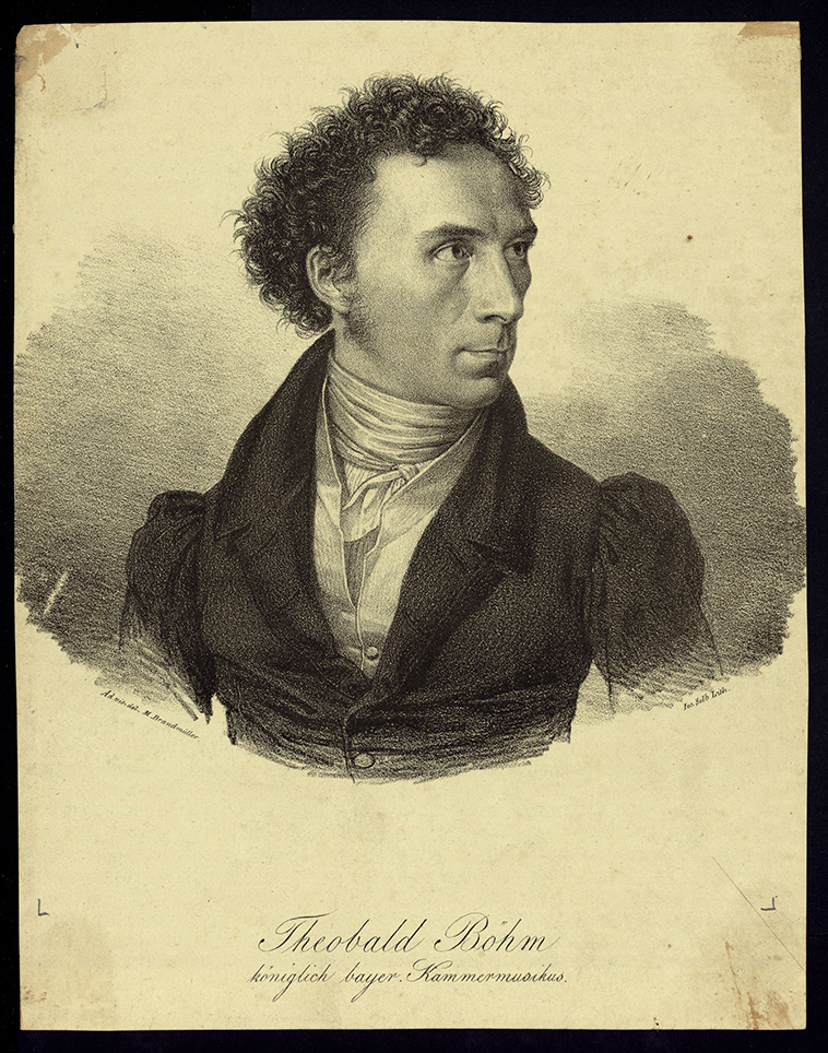 Portrait of Theobald Böhm, composer (1794-1881), before 1852.